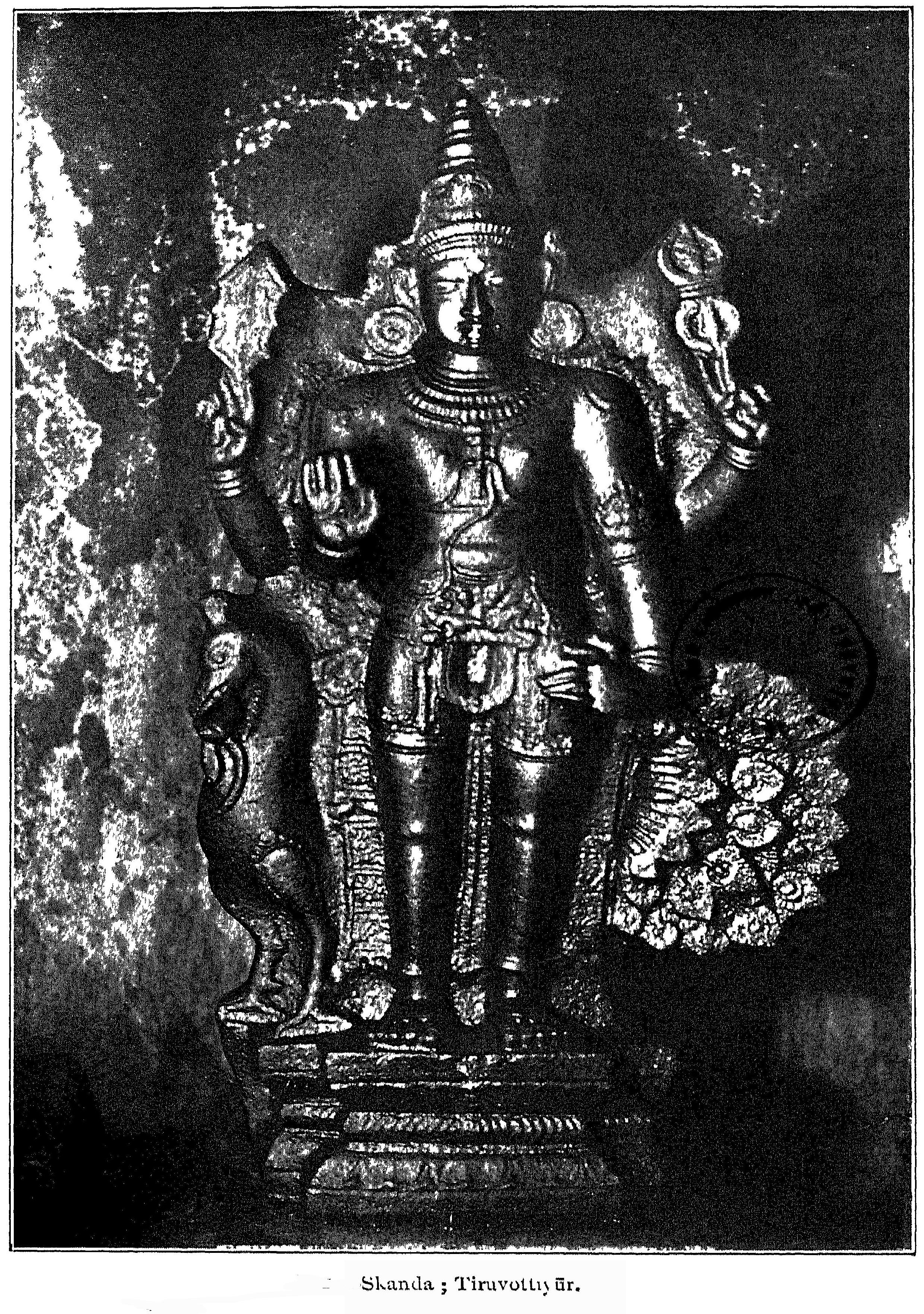 Skanda, Muruga or Karthikeya, from the temple of Thiruvotriyur in Tamil Nadu India